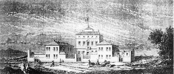 French consulate in Tunis, 1860.